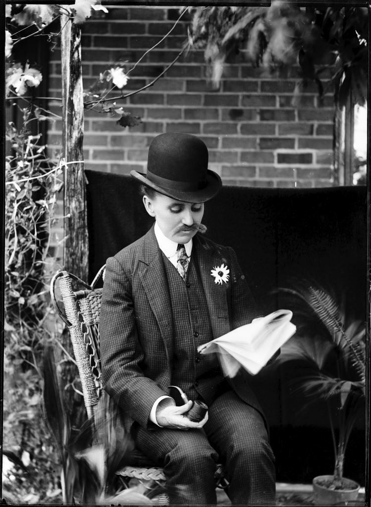 Format: Glass plate negative. Repository: Phillips Glass Plate Negative Collection, Powerhouse Museum Part Of: Powerhouse Museum Collection General information about the Powerhouse Museum Collection is available at Persistent URL: Acquisition credit line: Gift of the Estate of Raymond W Phillips, 2008